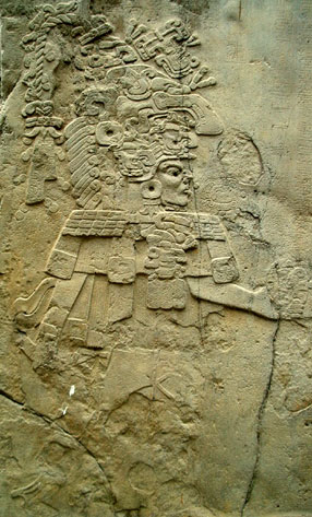 Photograph of left side of La mojarra Stela 1 at the Museum of Anthropology at Xalapa, Vera Cruz, Mexico.